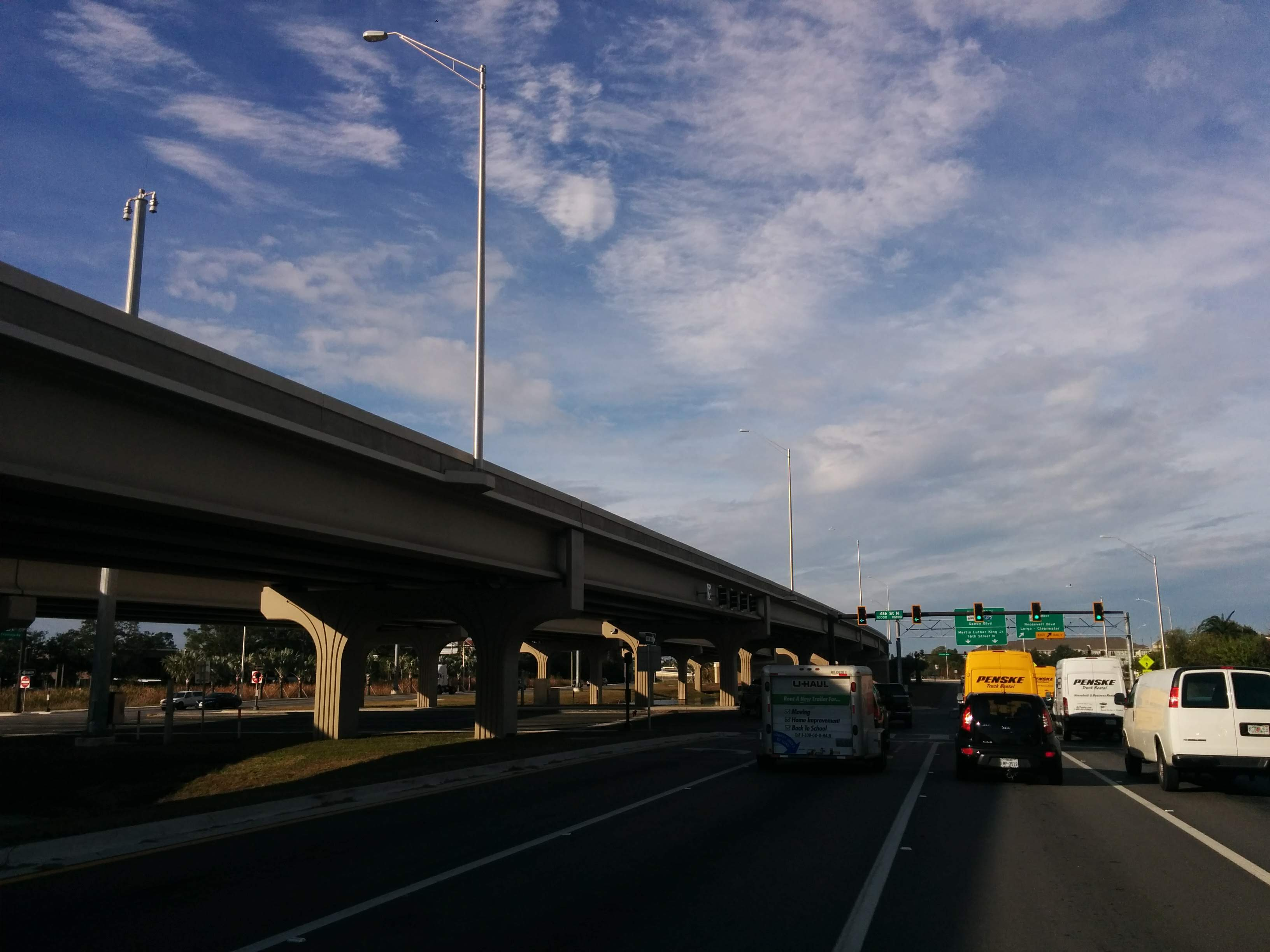 The Gandy Freeway was constructed between 2015 and 2018, opening to motorists in phases in 2017 and 2018. Shown here is the overpasses that carry mainline traffic along FL State Rd 694 over 4th St N.